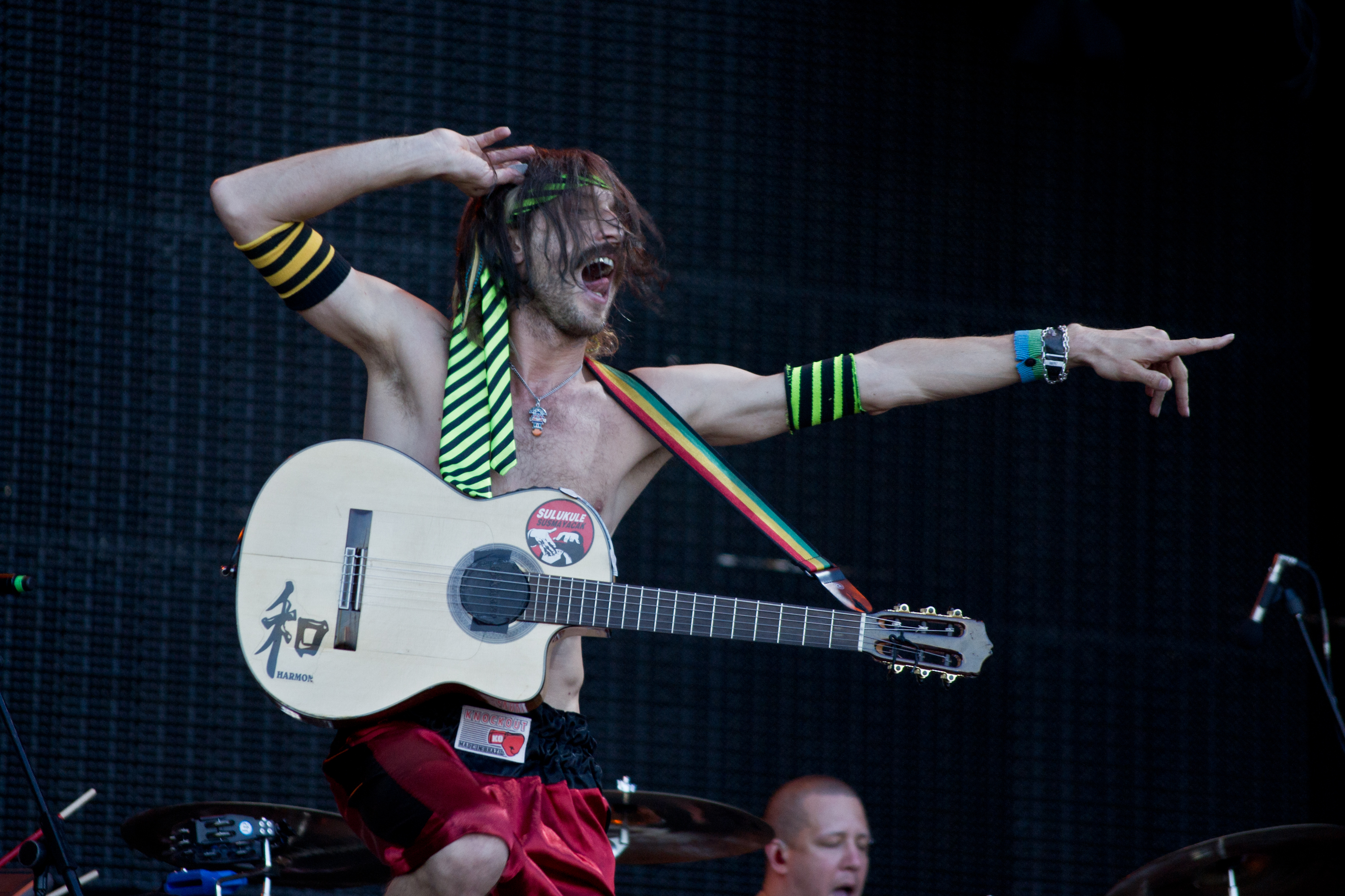 Gogol Bordello in Rock in Rio Madrid 2012.